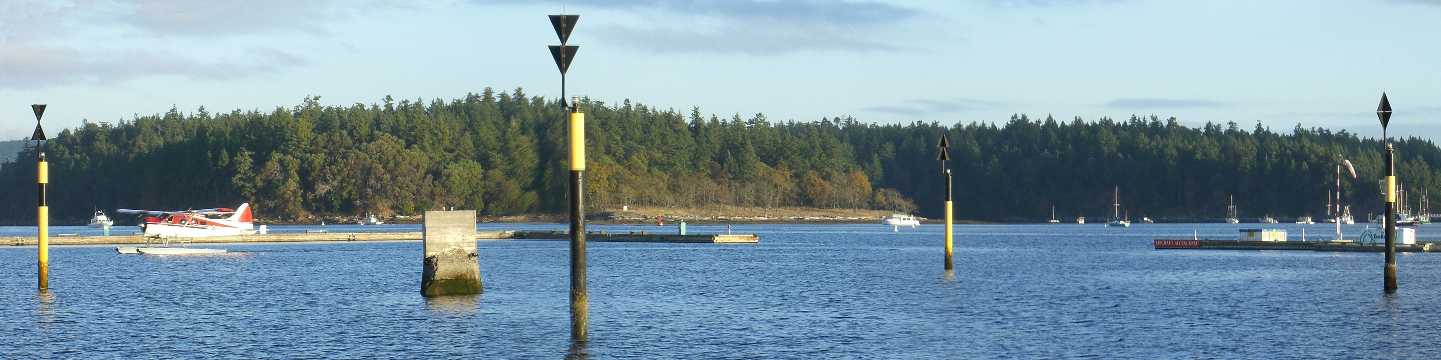 Full set of 4 cardinal bouys in harbour, Nanaimo, BC surrounding rock with poured concrete base of former navigation aide remaining, Newcastle Island in backgound.